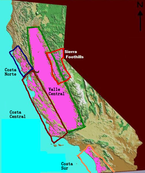 California wine region in Spanish